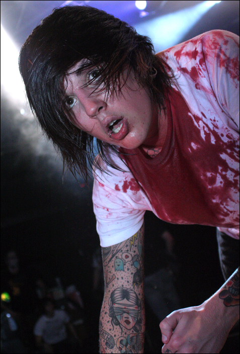 Oli Sykes at the Mean Fiddler (now the LA2)